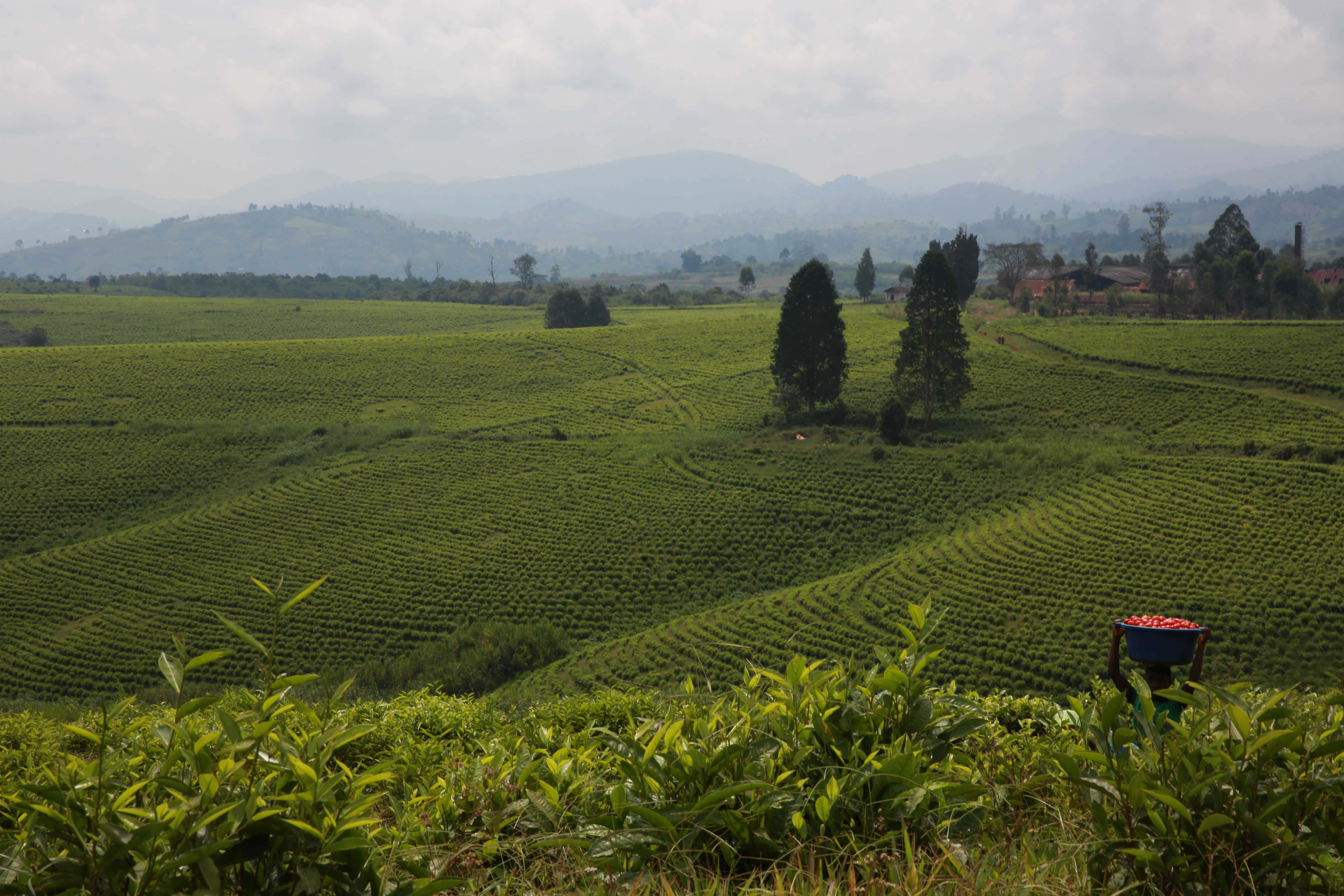 27 mars 2015. Axe Nyanzale - Kichanga, Nord Kivu, RD Congo. Une femme traverse un champ de culture de thé en terrasses. Photo MONUSCO/Abel Kavanagh == 27 March 2015. Nyanzale-Kichanga axis, North Kivu, DR Congo: A woman going through a terraced tea field. Photo MONUSCO/ Abel Kavanagh